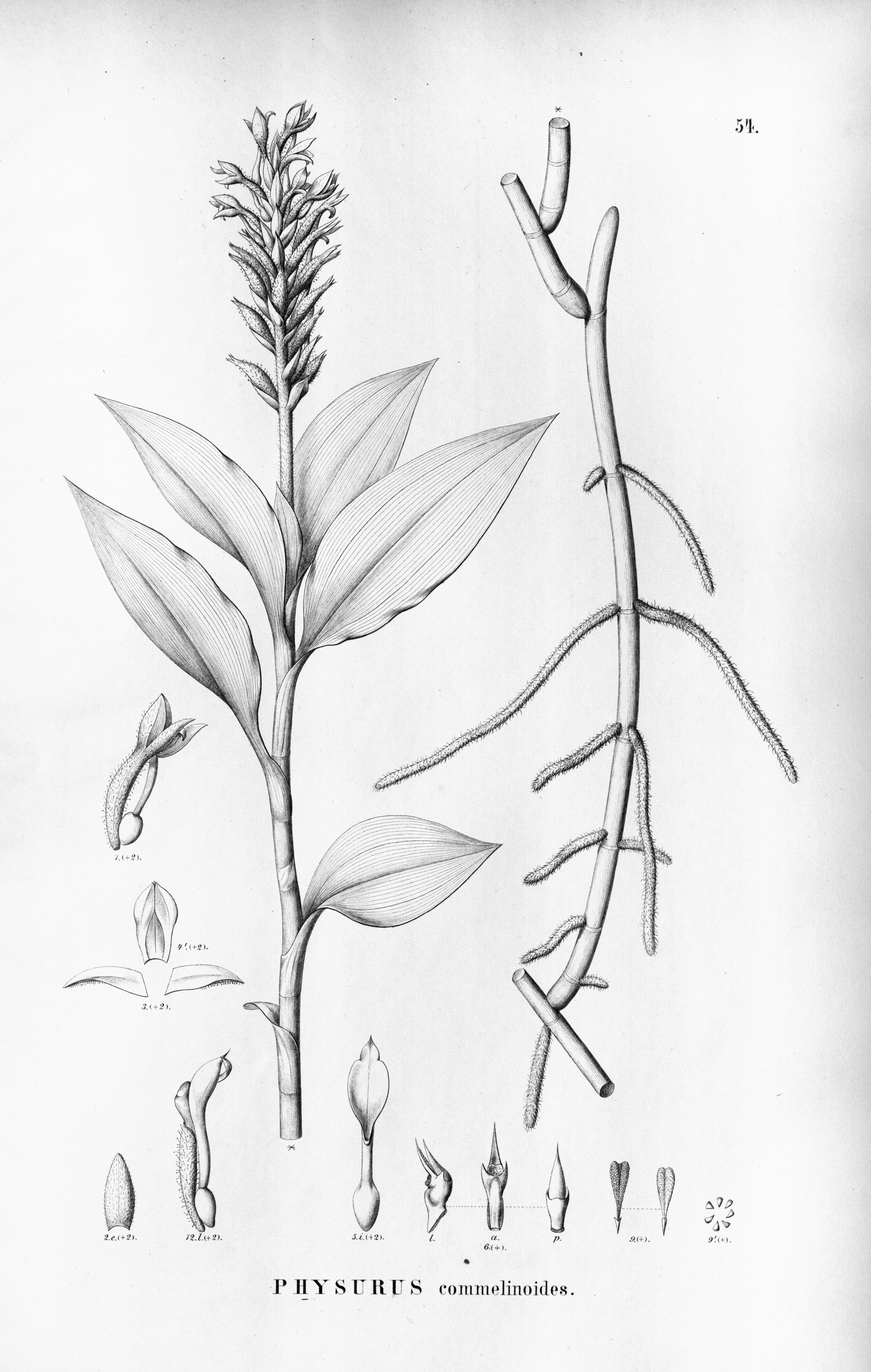 Illustration of Aspidogyne commelinoides (as syn. Physurus commelinoides)